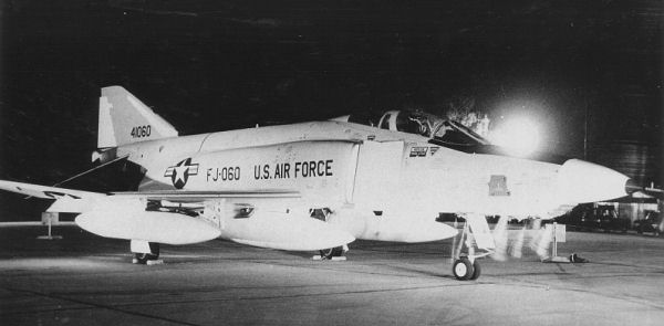 RF-4C Serial 64-1060 22d TRS / 26th Tactical Reconnaissance Wing, Toul-Rosieres Air Base, France, first to arrive for TRW in 1965